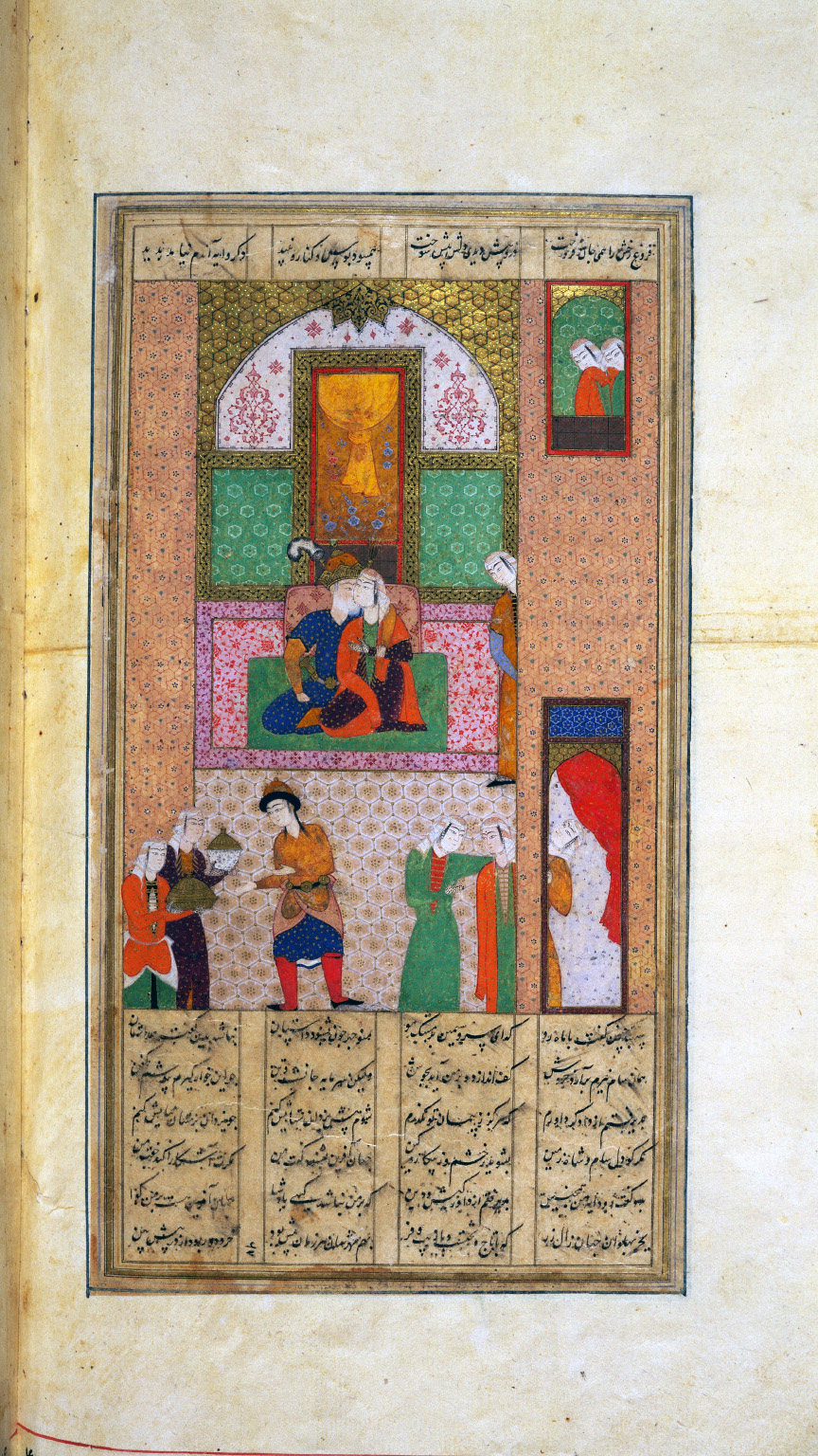 Zal marries Rudaba